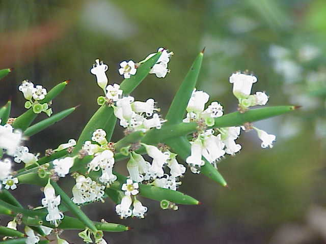 Species: Colletia paradoxa Family: Rhamnaceae Image No. 1